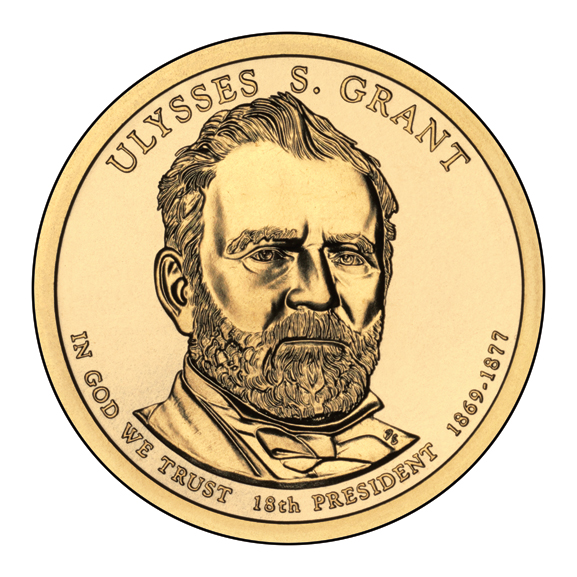 Presidential $1 Coin Program coin for Ulysses S. Grant. Obverse.